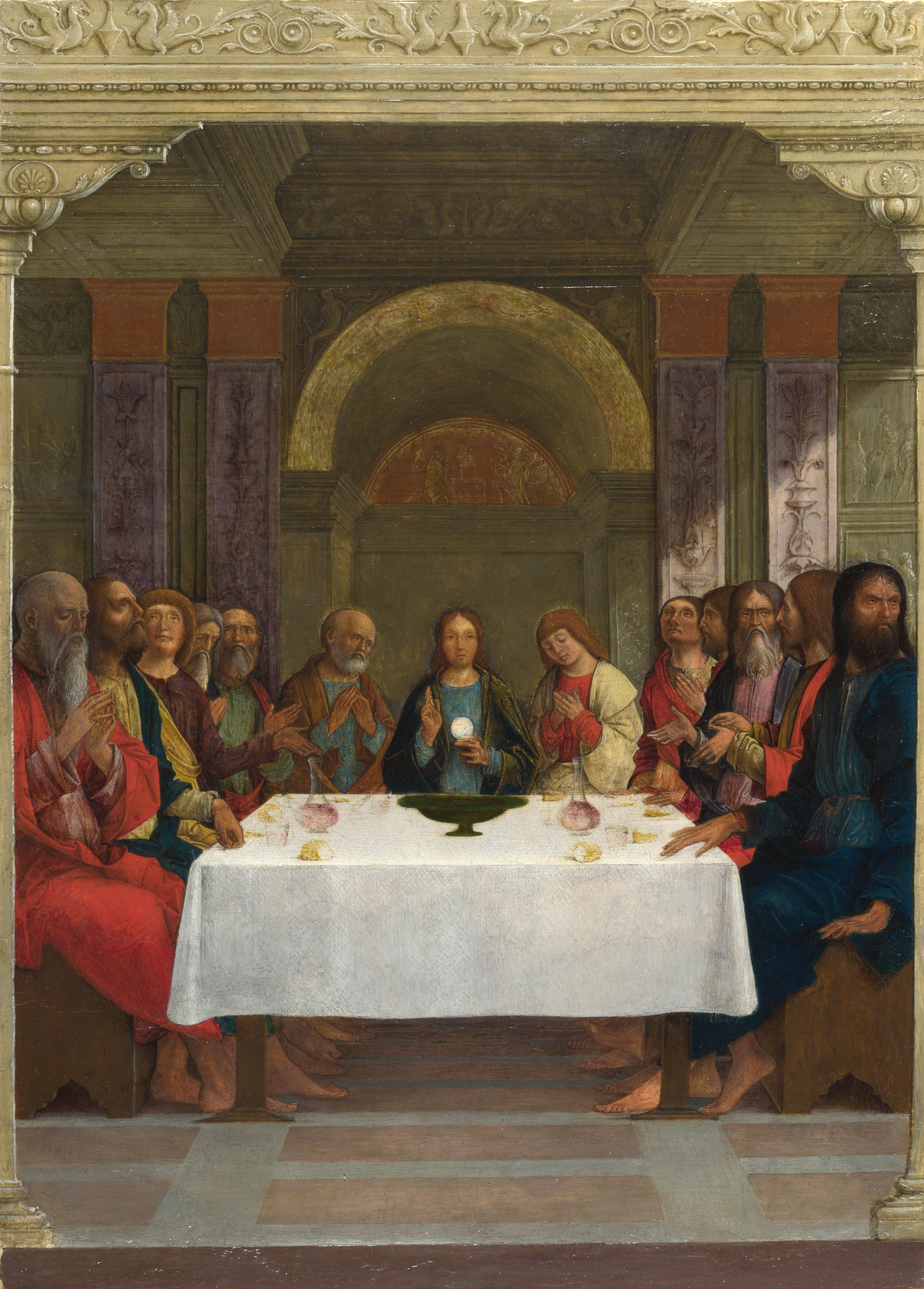 A part of two Panels from a Predella